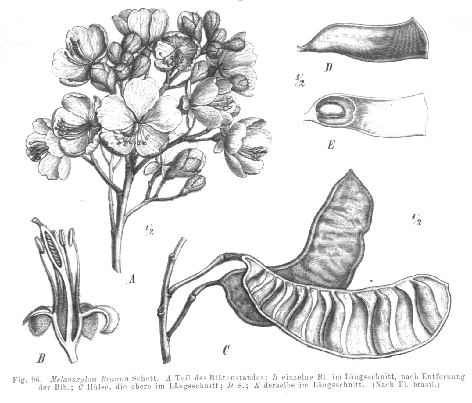 Illustration of Melanoxylon brauna sometimes called Melanoxylum brauna